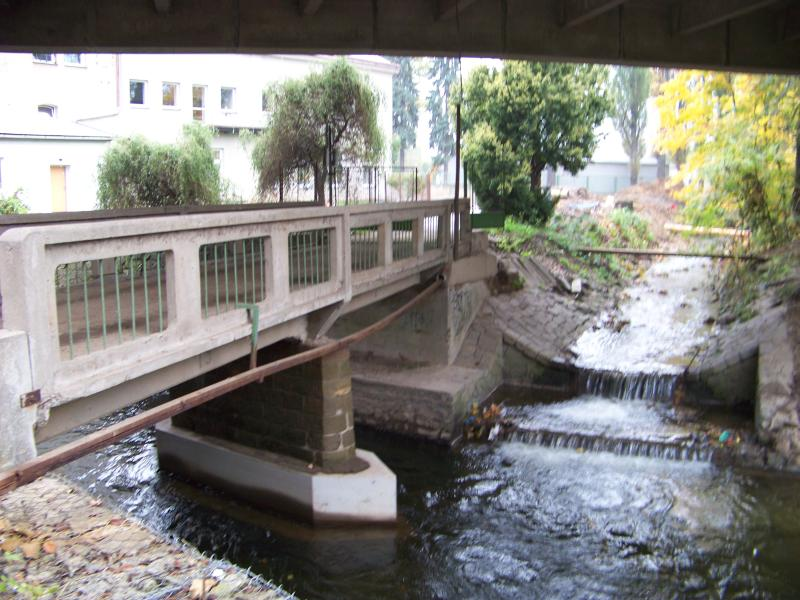 Turnov, Semily District, Liberec Region, the Czech Republic. Outfall of Stebenka stream to the race of Jizera River.